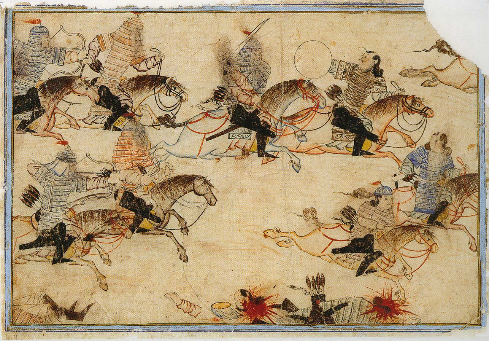 Mounted warriors pursue enemies. Illustration of Rashid-ad-Din's Gami' at-tawarih. Tabriz (?), 1st quarter of 14th century. Water colours on paper. Original size: 17.5 cm x 25.8 cm. Staatsbibliothek Berlin, Orientabteilung, Diez A fol. 70, p. 59. Probably a conflict between Mongols. See also Image:DiezAlbumsArmedRiders_I.jpg.